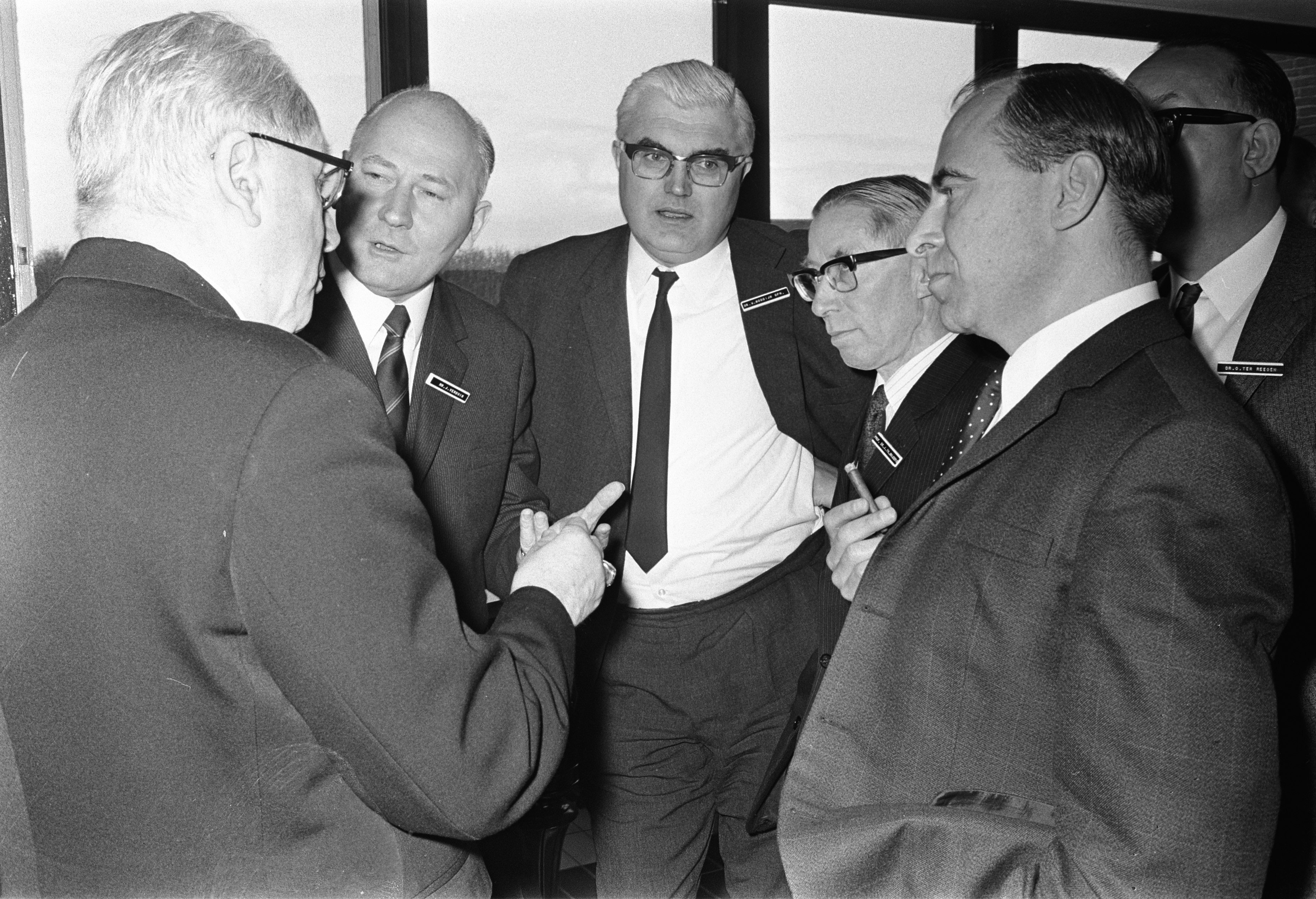 Pastoral council in Noordwijkerhout (the Netherlands), April 1968. Left to right: Bernard Alfrink, mr. J. (=Th.J.C.) Verduin, Walter Goddijn, Jan Snijders, dr. B. van Iersel (?), Otto ter Reegen